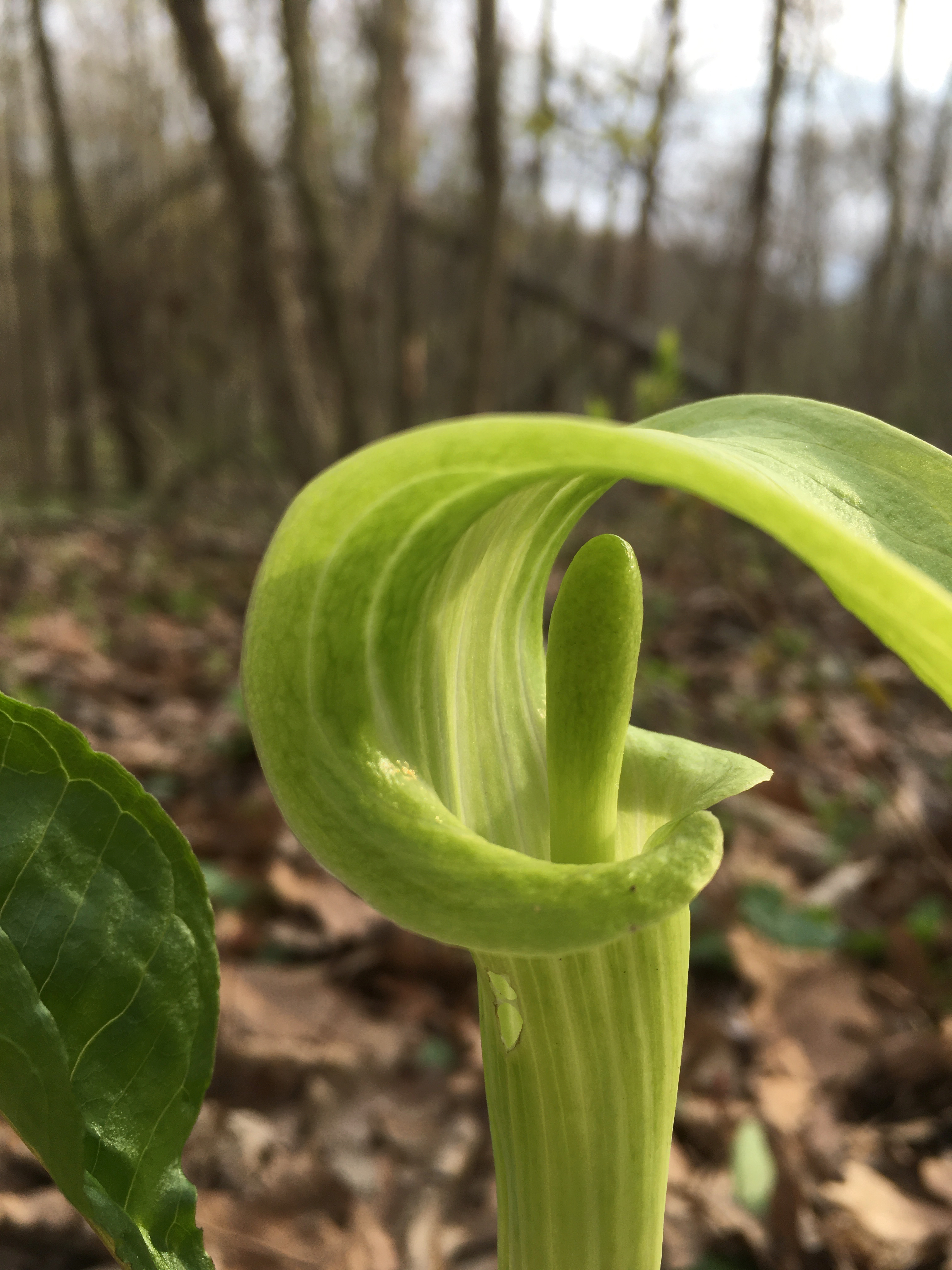 Arisaema triphyllum (Jack in the Pulpit), Fairview Park OH. Photo by Geoffrey A. Landis.